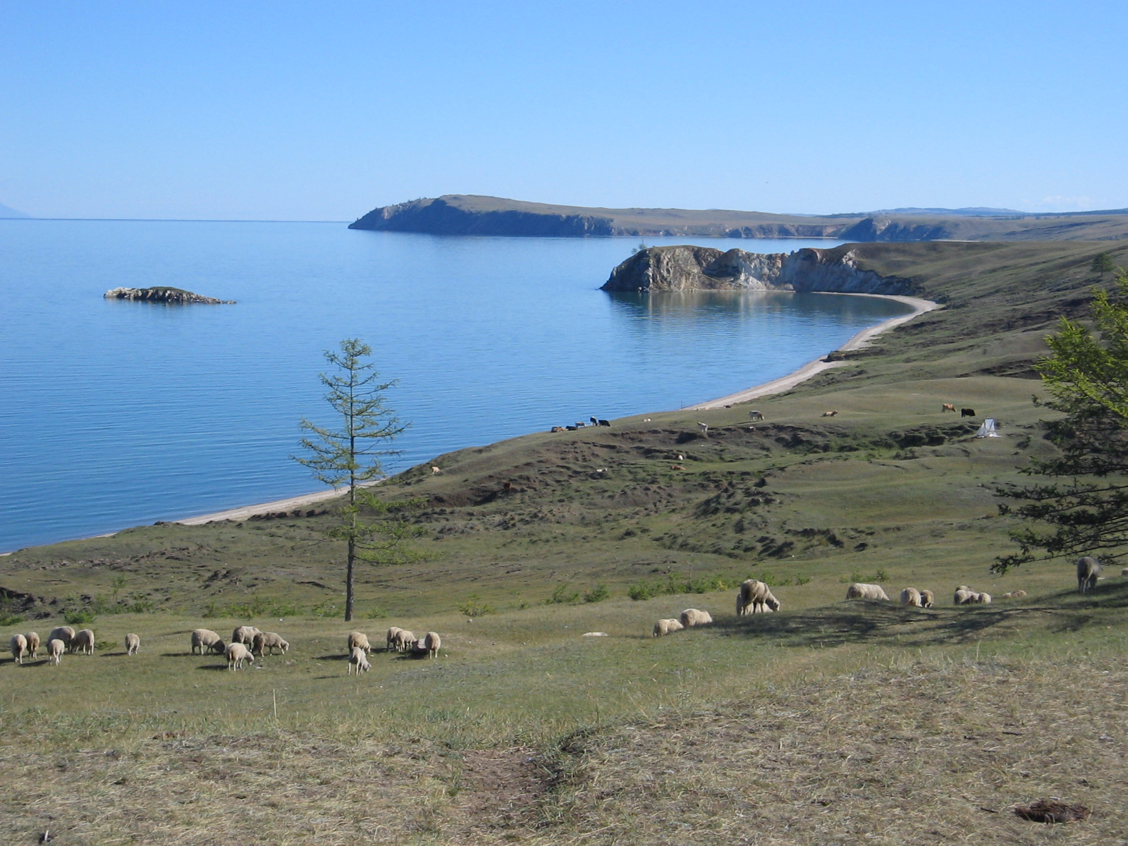 View of the Small See and the W of the Olkhon island (Small See) in the Baikal LakeEuskara: Itsaso Txikiaren ikuspegia Olkhon Uhartearen Man (Baikal Lakua)